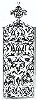 Moresque ornament by Peter Flötner (ca. 1490-1546)